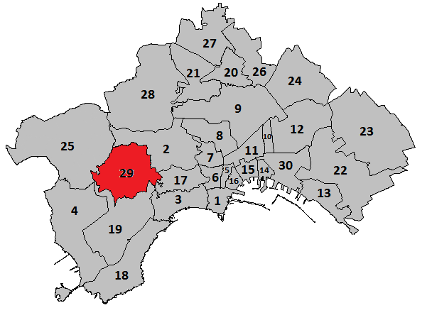 Soccavo in Naples